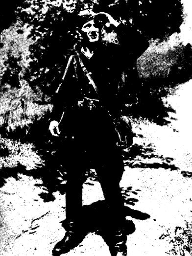 Anton Vratanar-Antonesko (1919-1993), Slovene partisan and officer.